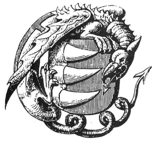 family coat of arms of the Báthorys with an Ouroboros